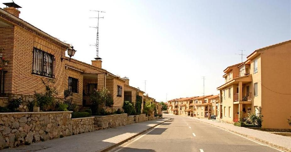 Ensanche de viviendas en la Carretera de Gejuelo de Ledesma. Ministerio de Vivienda. 1982.